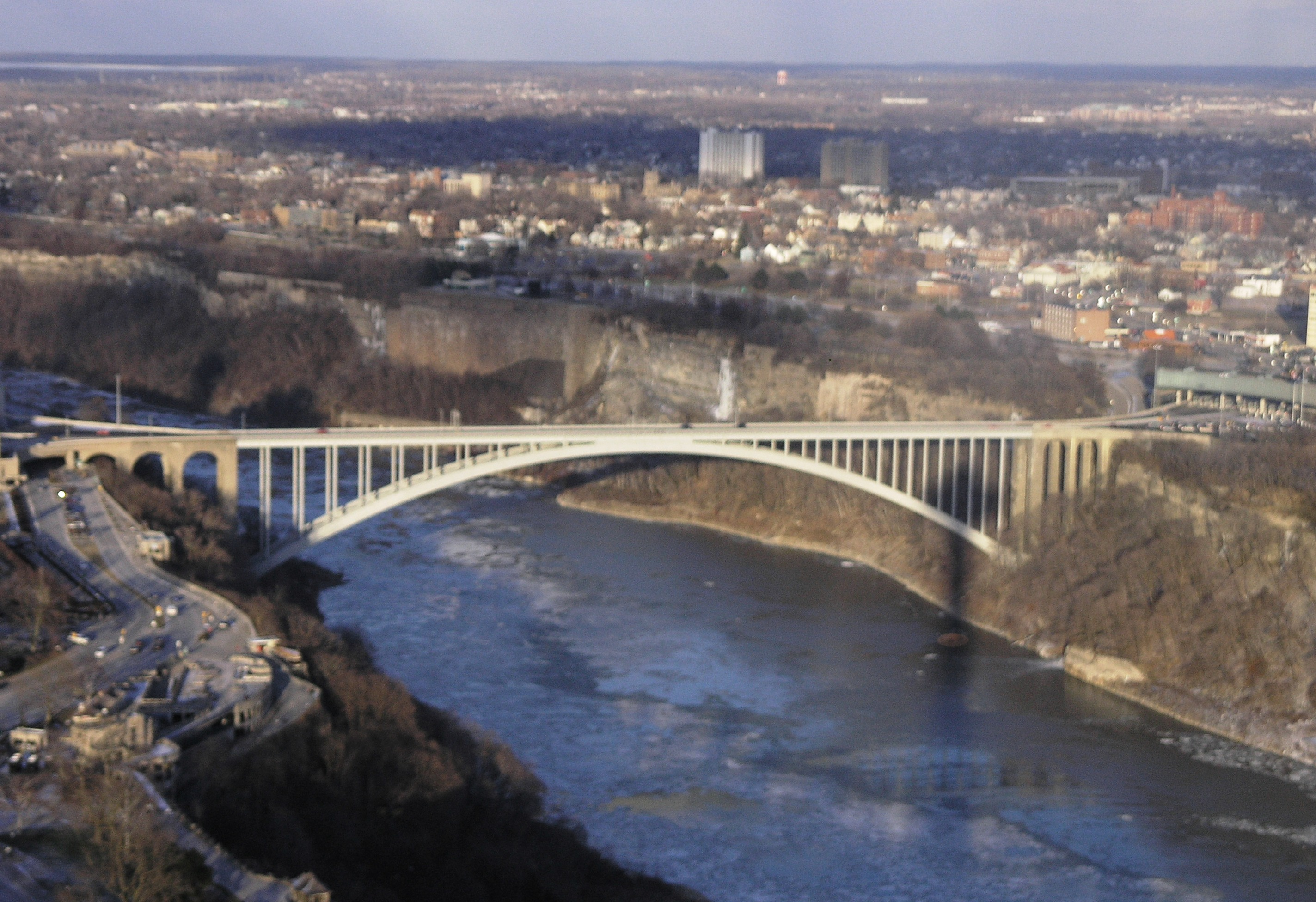 Taken by Daniel Mayer in late February 2006.